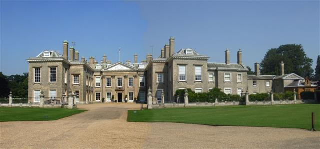 Althorp House, Northamptonshire Looking north